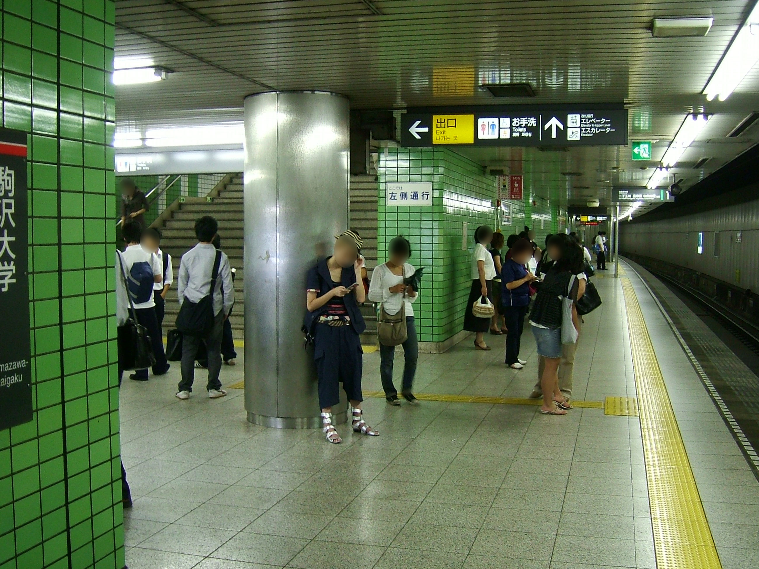 Komazawa-Daigaku Station platform (Tōkyū Den-en-toshi Line)